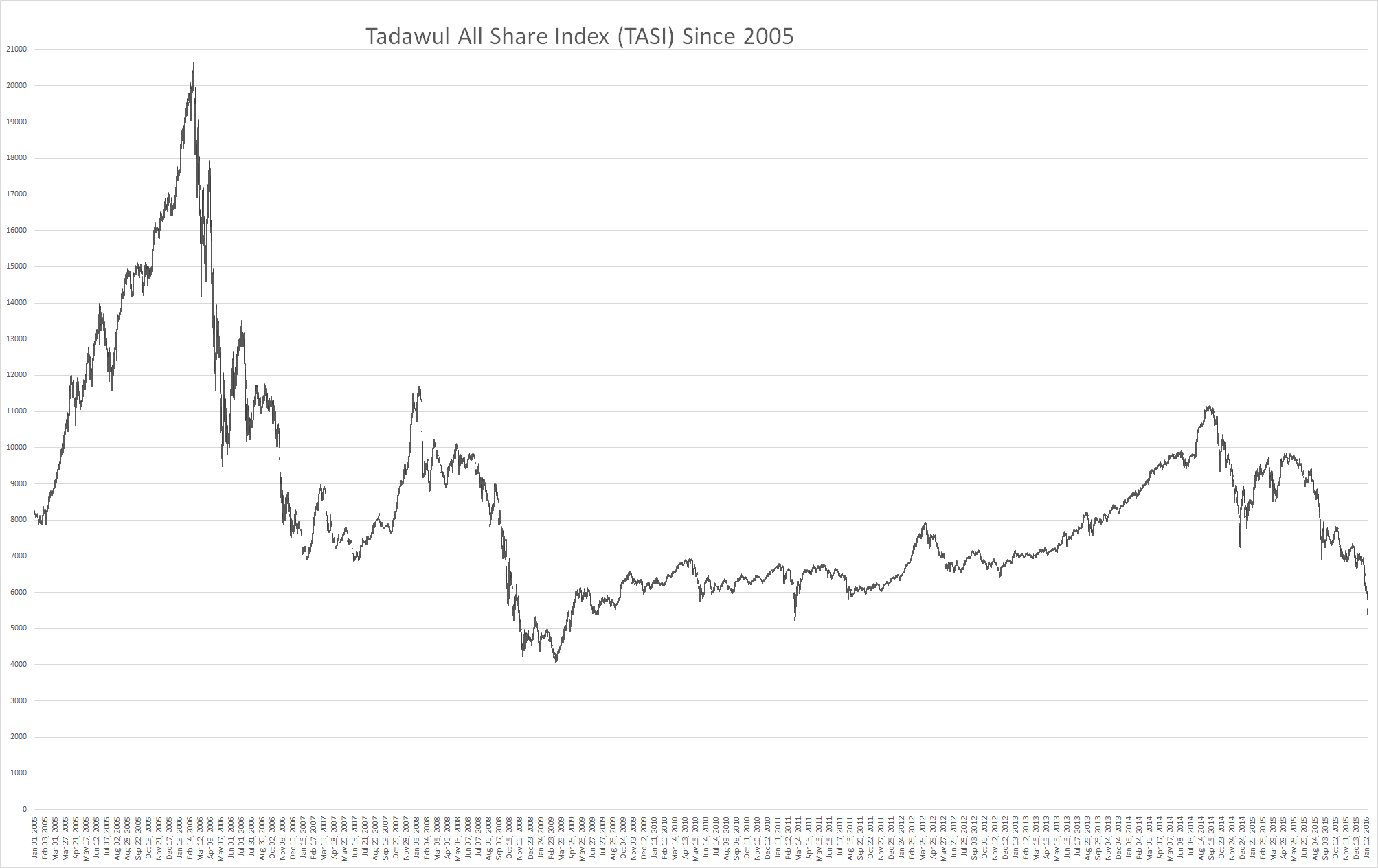 Tadawul All Share Index (TASI)) Since 2005